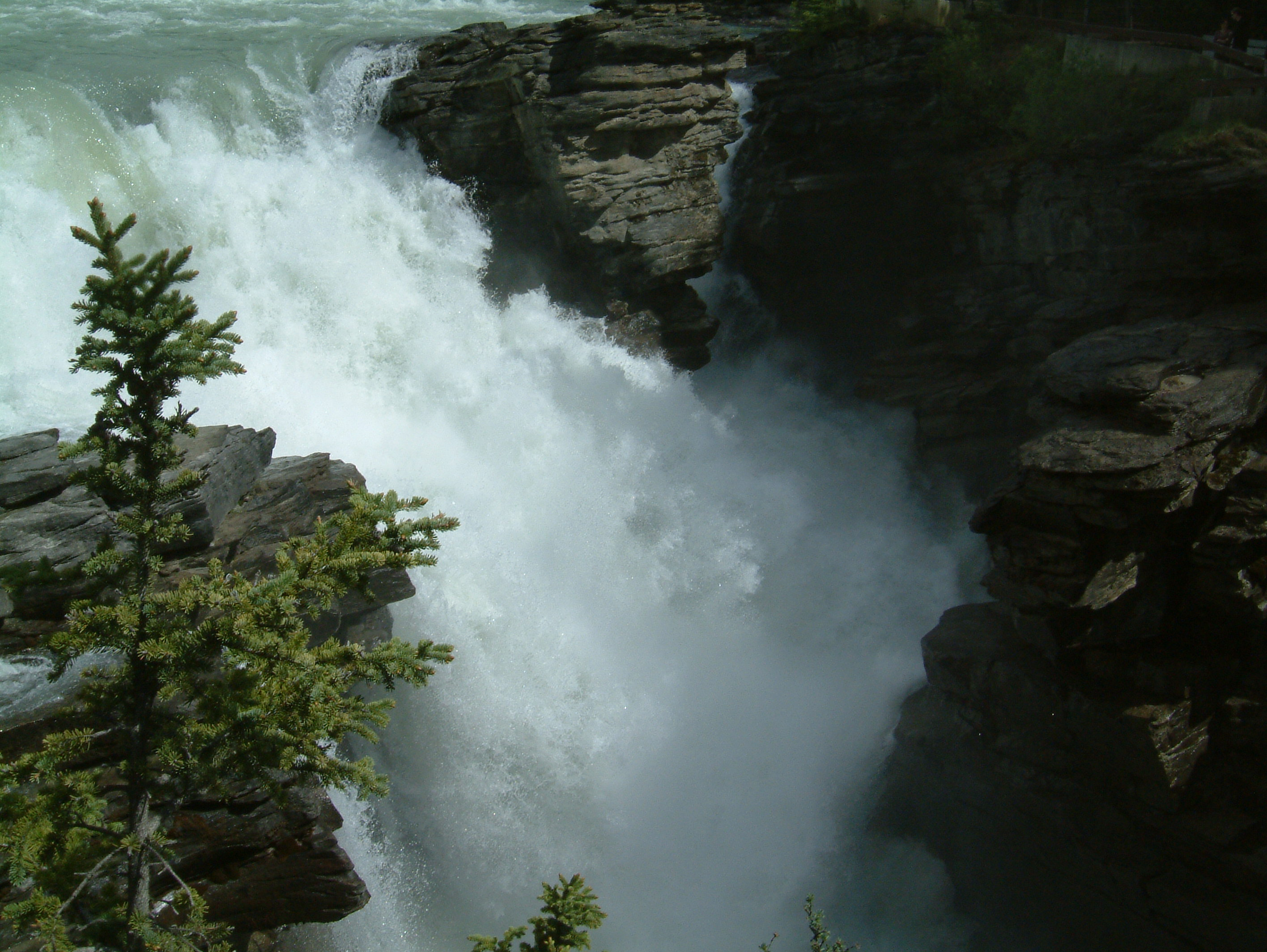 Der Athabasca Fall im Jasper National Park (Kanada, Alberta)